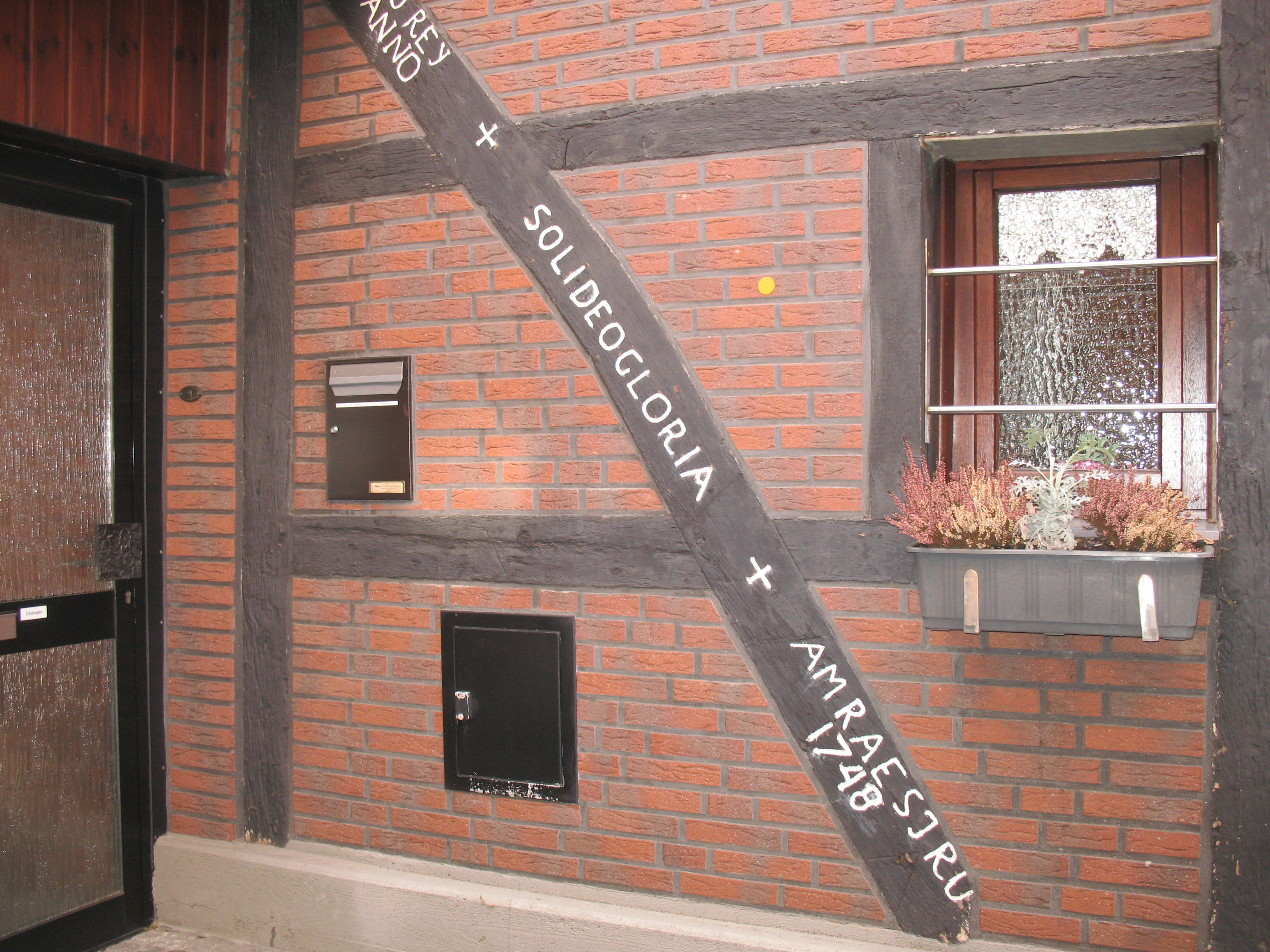 inscription at a building in Hövel („soli de gloria“), Bockum-Hövel, Westphalia